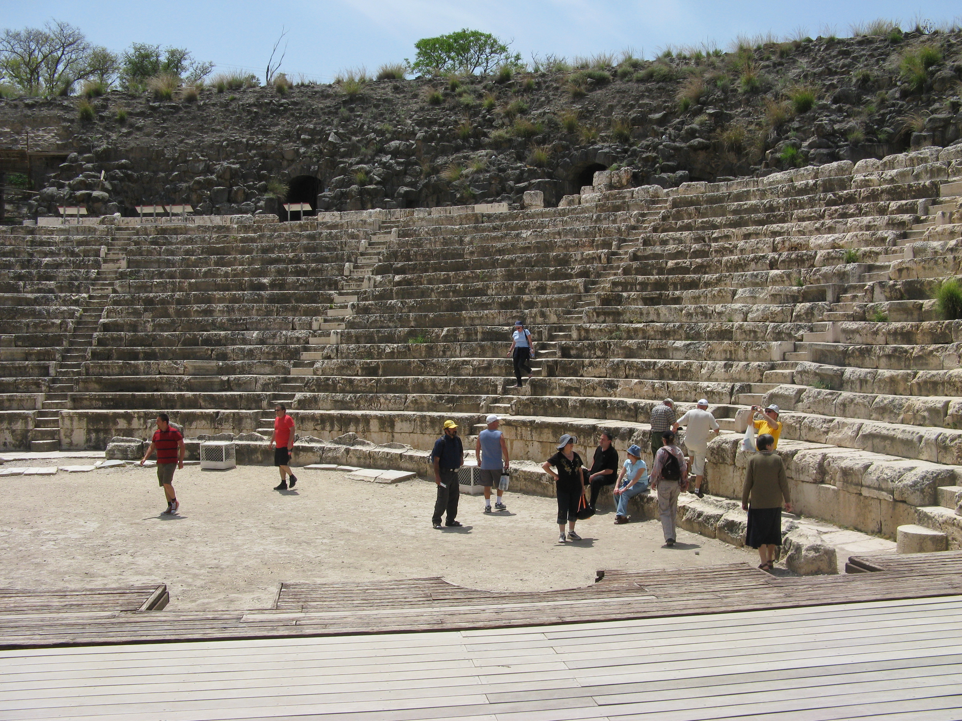 The ancient Scythopolis - the Theatre